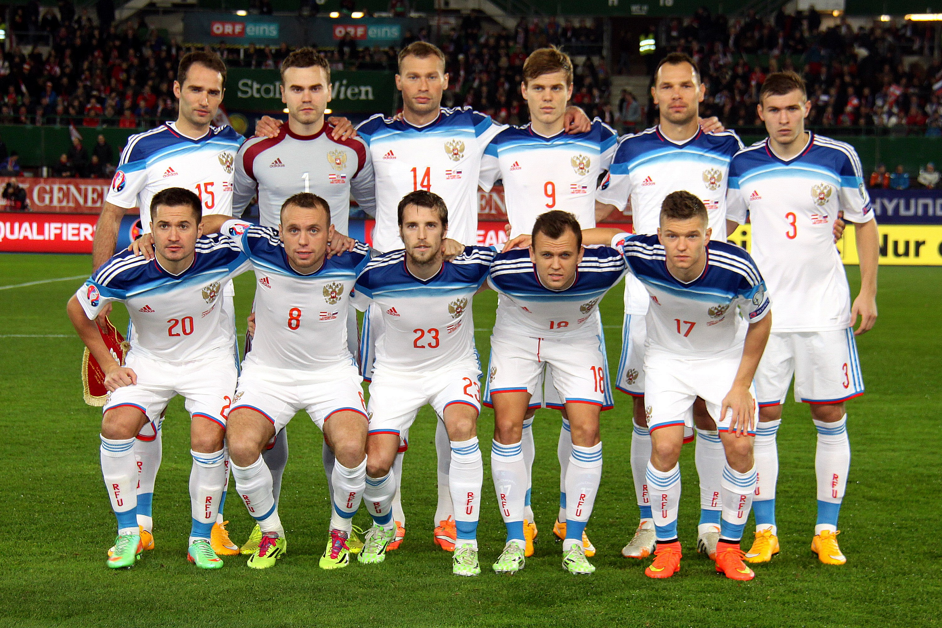 UEFA Euro 2016 qualifying: Austria vs. Russia (1:0 / 0:0) at 2014-11-15 in the Ernst-Happel-Stadion in Vienna. – The photo shows the Russia team (from left to right). – 1st raw: Viktor Fayzulin, Denis Glushakov, Dmitriy Kombarov, Denis Cheryshev und Oleg Shatov – 2nd raw: Roman Shirokov, Igor Akinfeev, Vasiliy Berezutskiy, Aleksandr Kokorin, Sergey Ignashevich und Sergey Parshivlyuk.